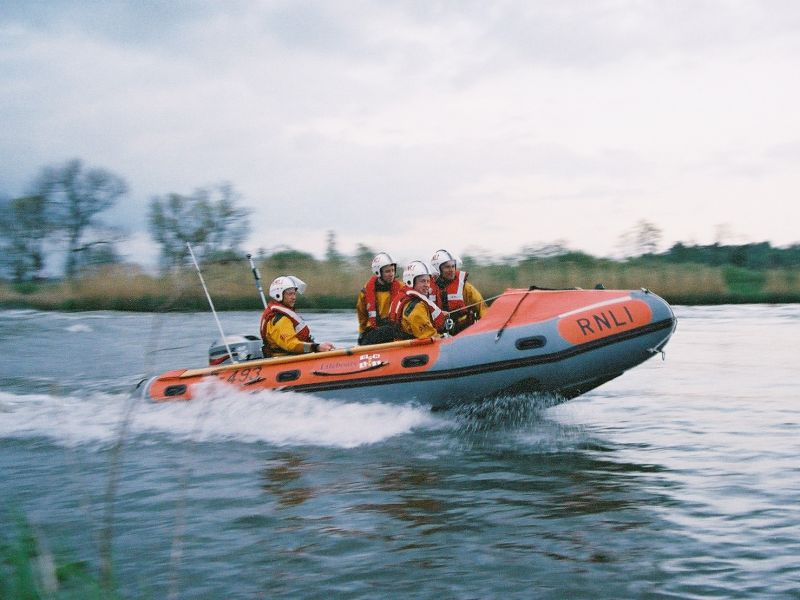 D Class Lifeboat at Speed Photo Scott Snowling